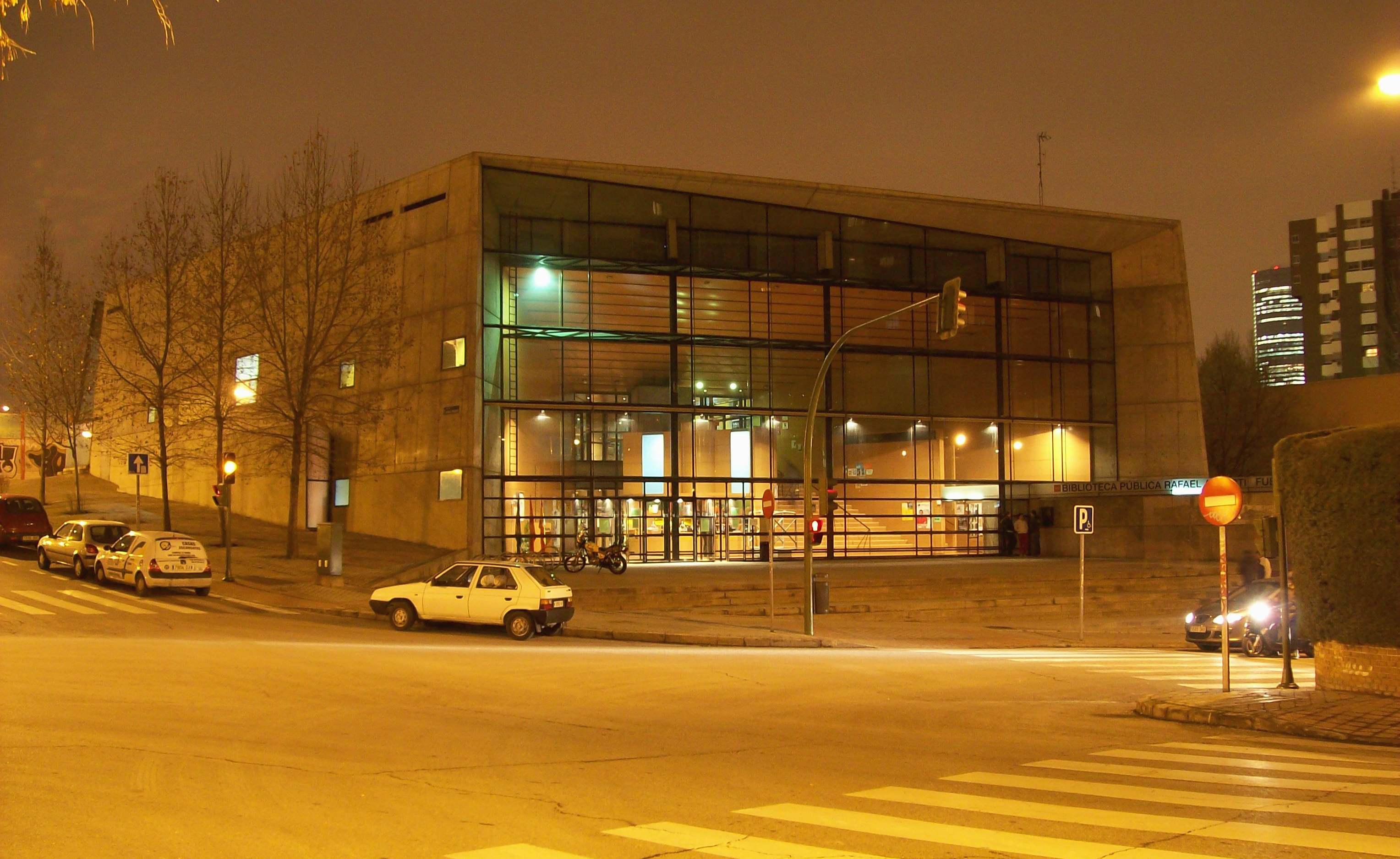 Night view of Rafael Alberti Public Library, at 38 Calle de Sangenjo (street, Fuencarral-El Pardo district) in Madrid (Spain). Building projected by architect Andrés Perea Ortega (b. 1940) and built in 1998.